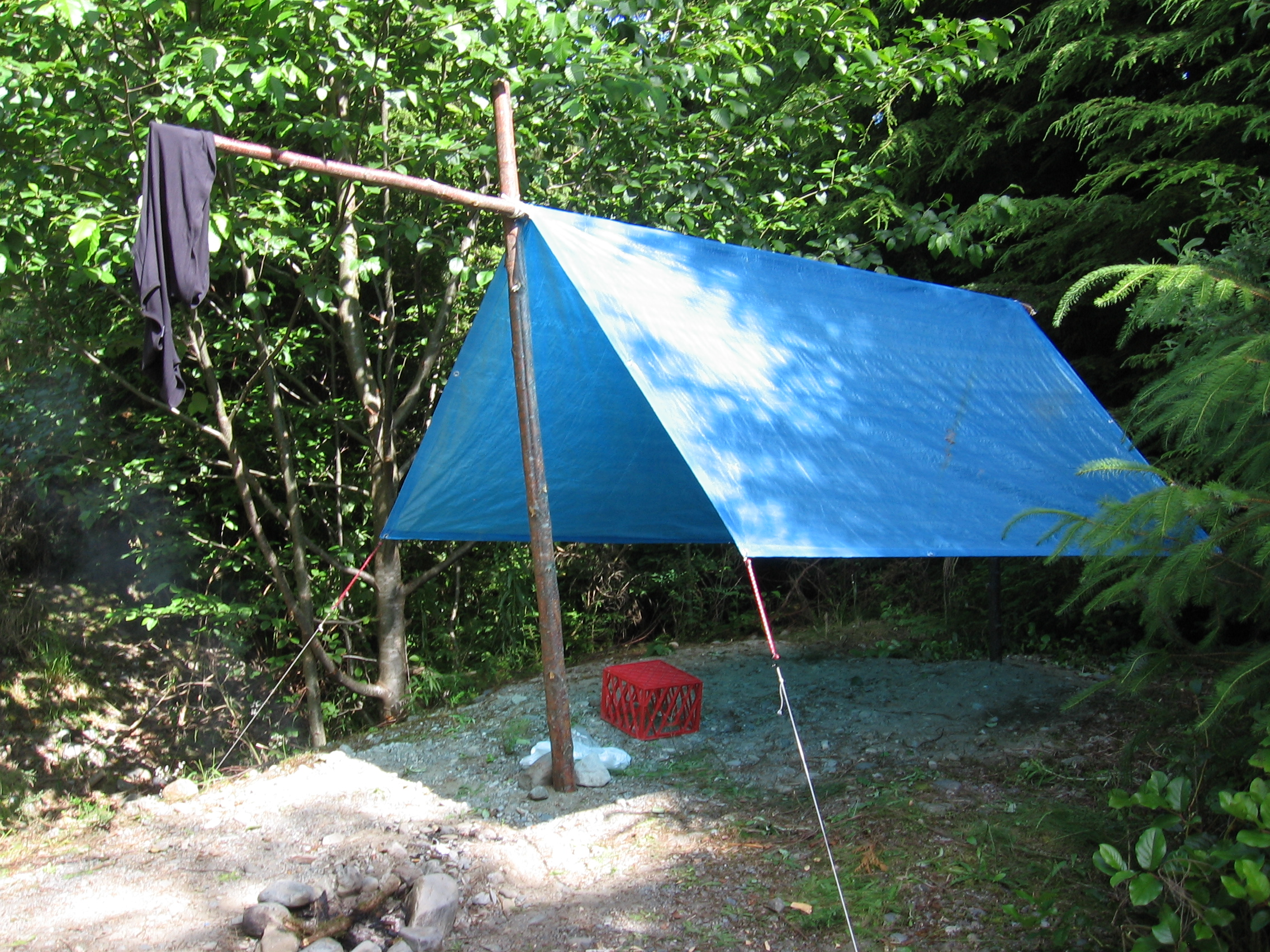 A simple tent that uses a tarpaulin as a fly.